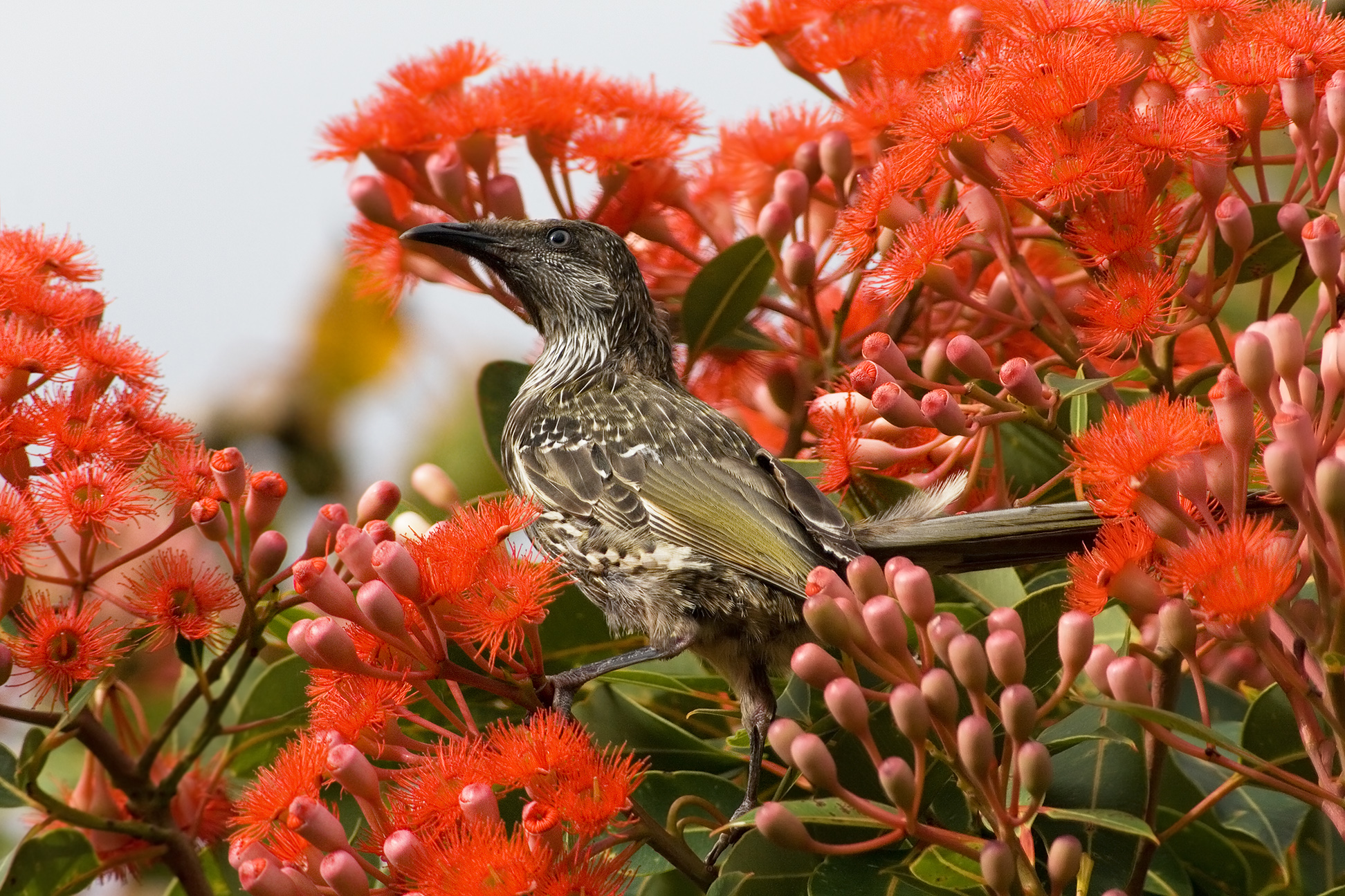 Little Wattlebird (Anthochaera chrysoptera) feeding on a flowering Corymbia ficifolia, Austins Ferry, Tasmania, Australia Camera data Camera Canon EOS 400D Lens Canon EF 400mm f5.6L w/ 1.4x teleconverter Flash Fill, Frensel Extender Focal length 560 mm Aperture f/10 Exposure time 1/640 s Sensivity ISO 400